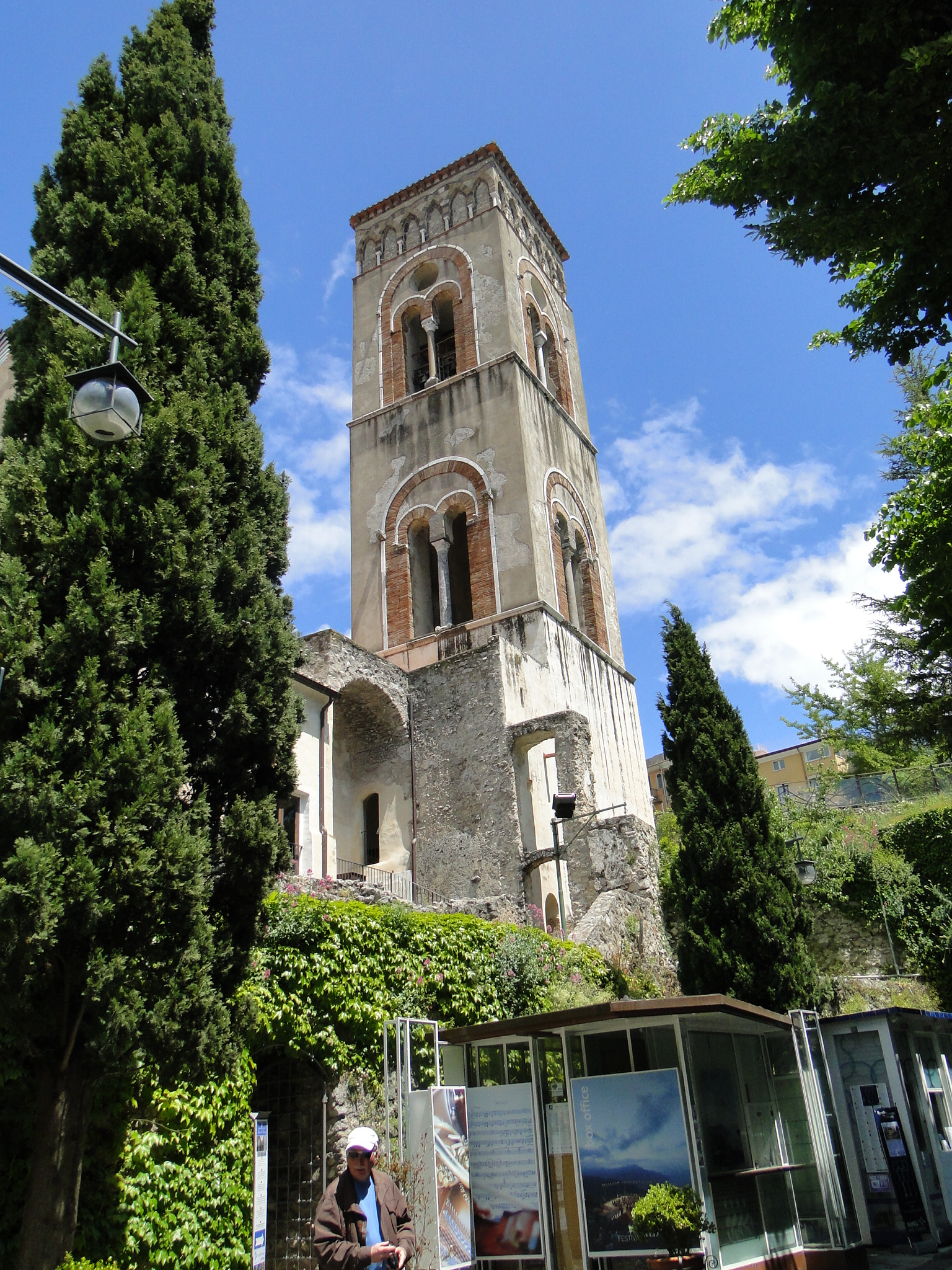 Bell tower of the Ravello's Cathedral (Ravello - Italy)